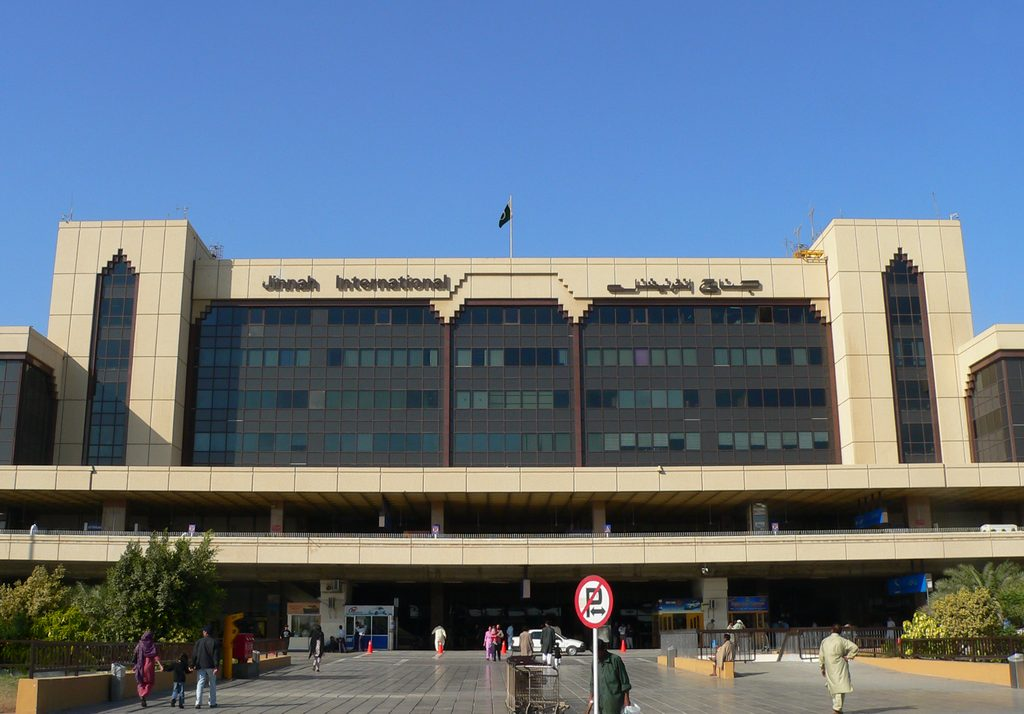 One of the terminals at Jinnah International Airport in Karachi, Pakistan. Photo by Waqas Usman. More images at and